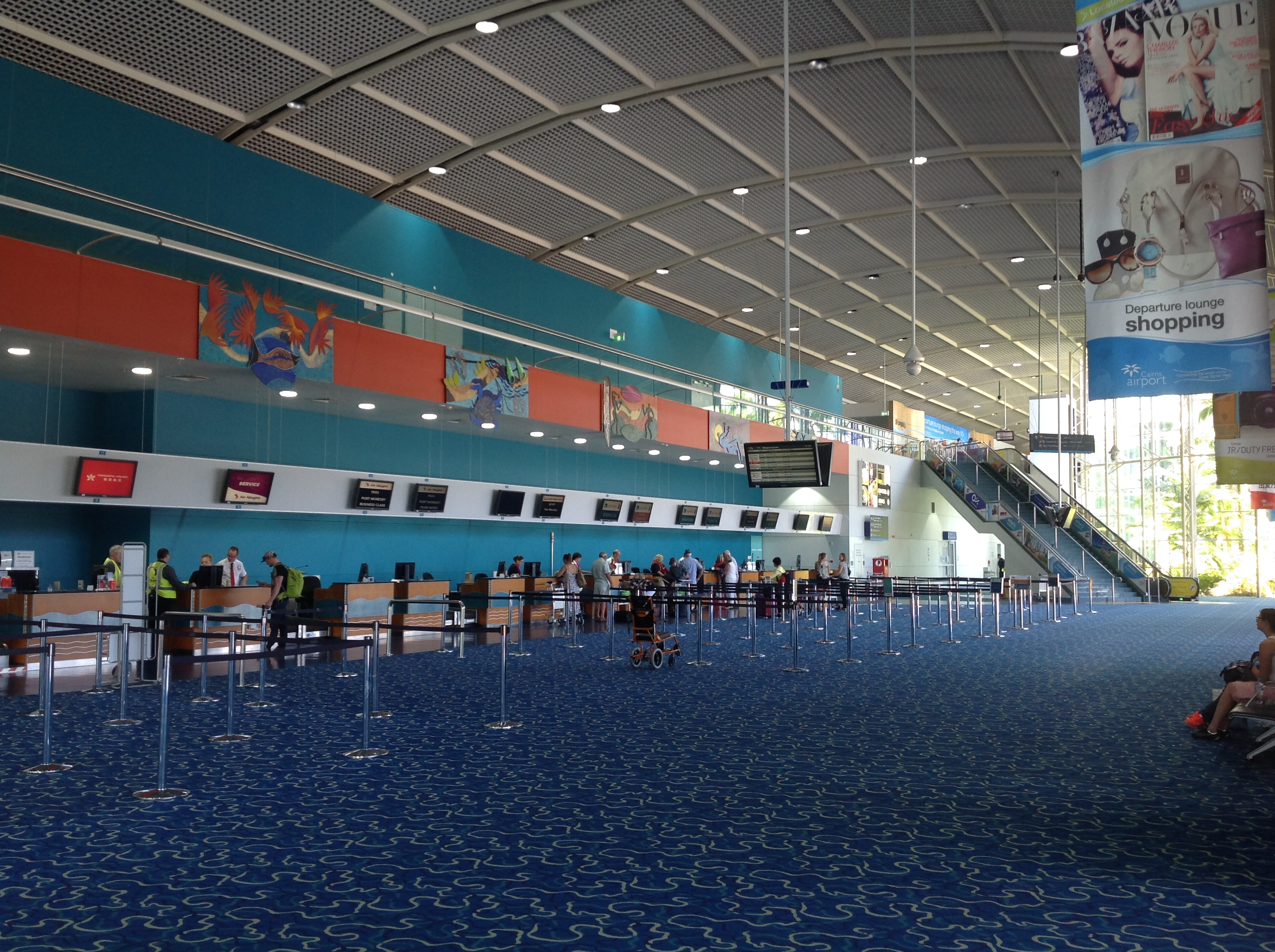 Inside Cairns Airport International Terminal